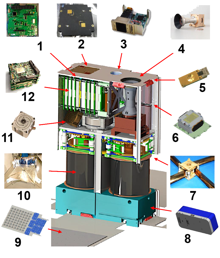 CubeSat Near-Earth Asteroid Scout wtihout-labels